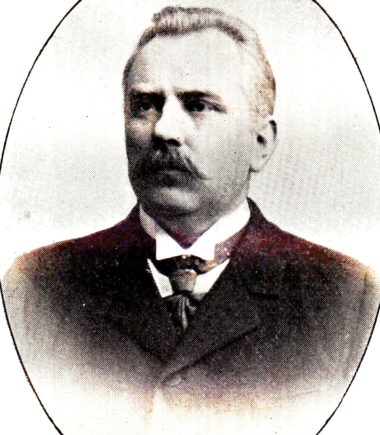 Reinder Fennema